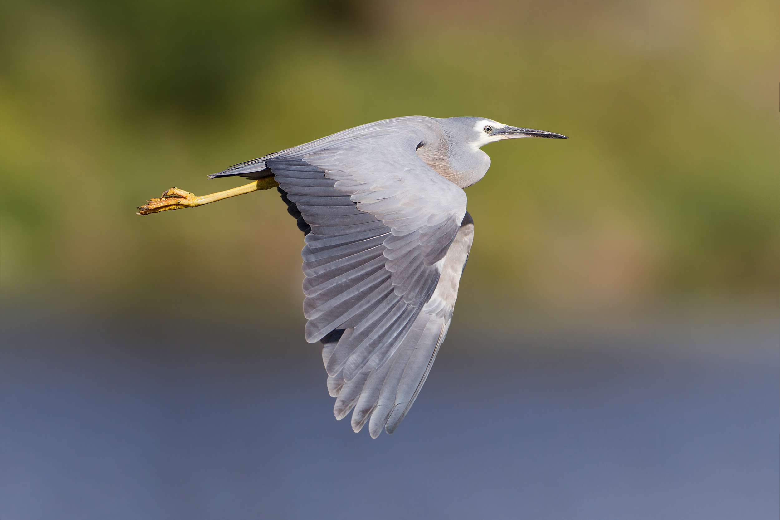 White-faced Heron (Egretta novaehollandiae), Gould's Lagoon, Tasmania, Australia